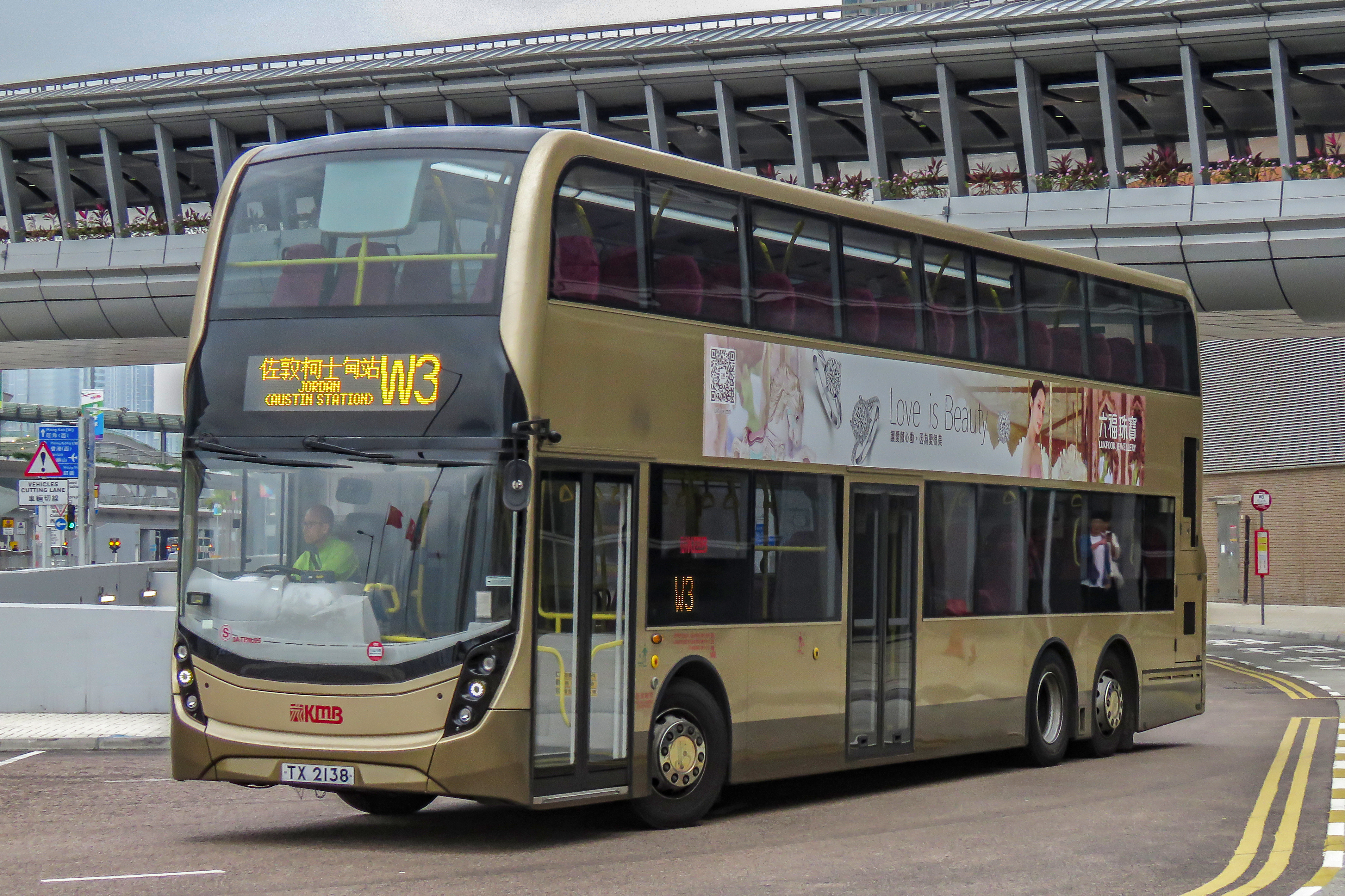 And this golden one heading for Jordan (Austin Station)... hey you're already here!